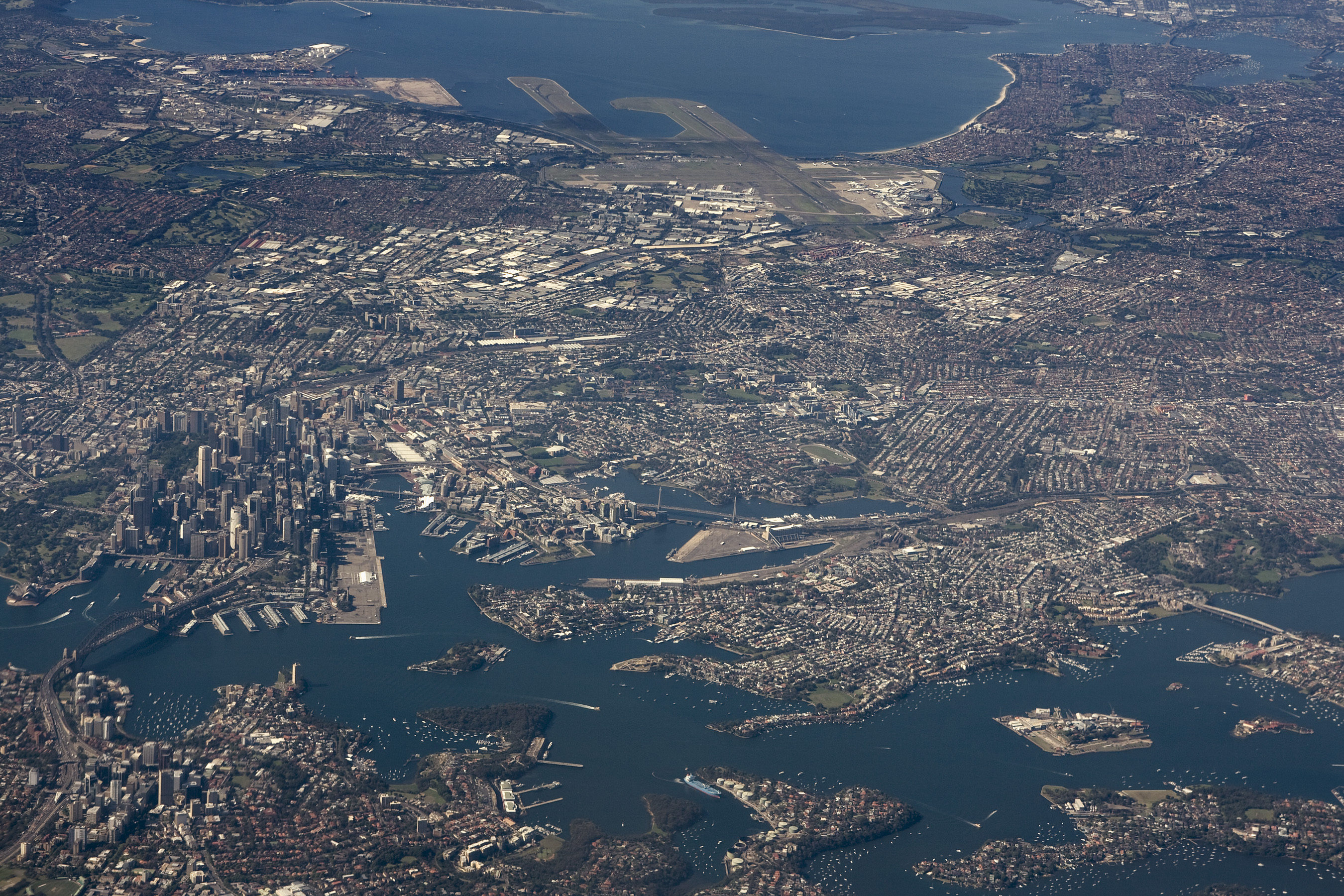 Sydney aerial view